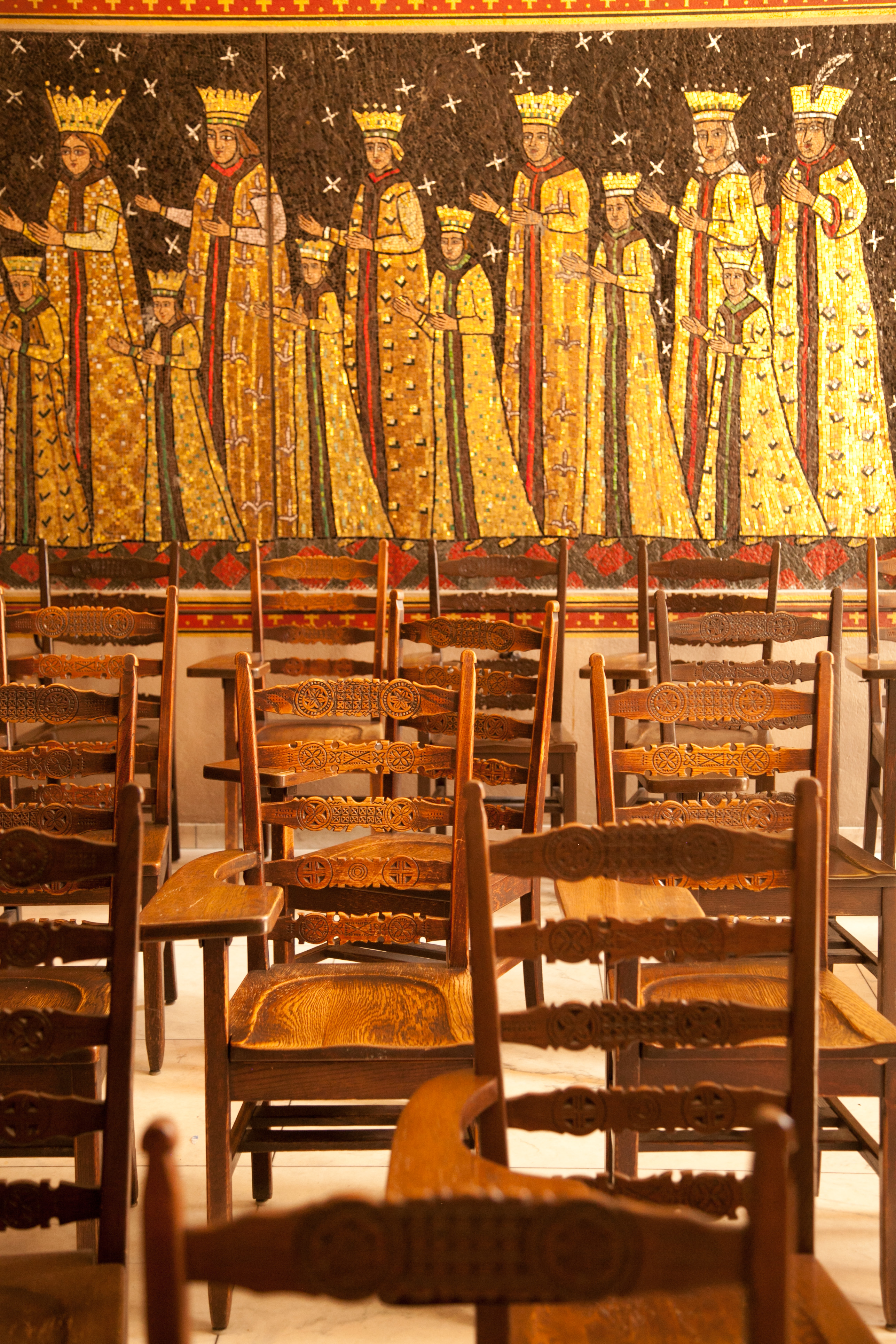 Nationality Rooms 2